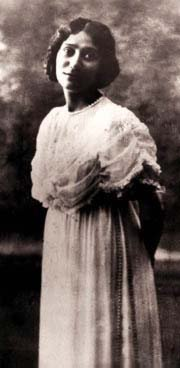 Shovkat Mammadova, 15, at her debut on April 13, 1912. She was the first woman to perform on stage in Baku without wearing a veil.